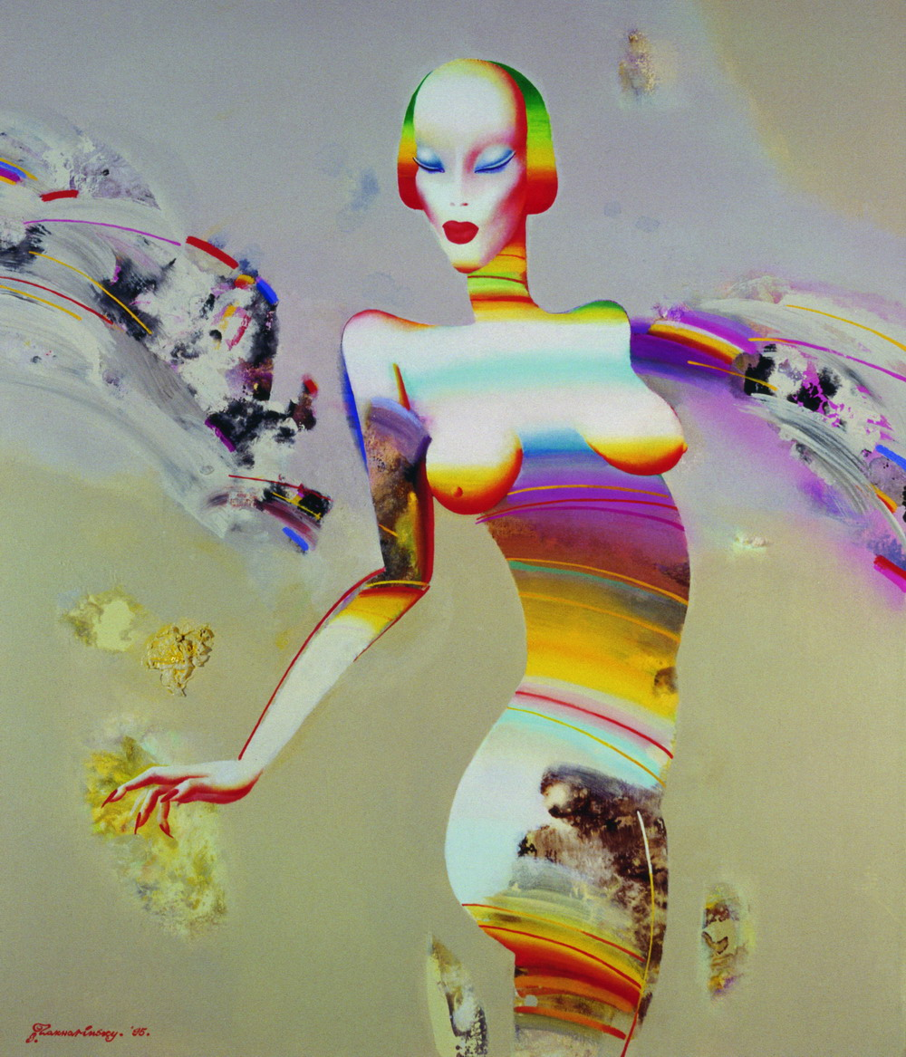 poster of Mill of fashion festival. 2002 AD